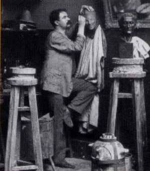 Medardo Rosso at work in his studio